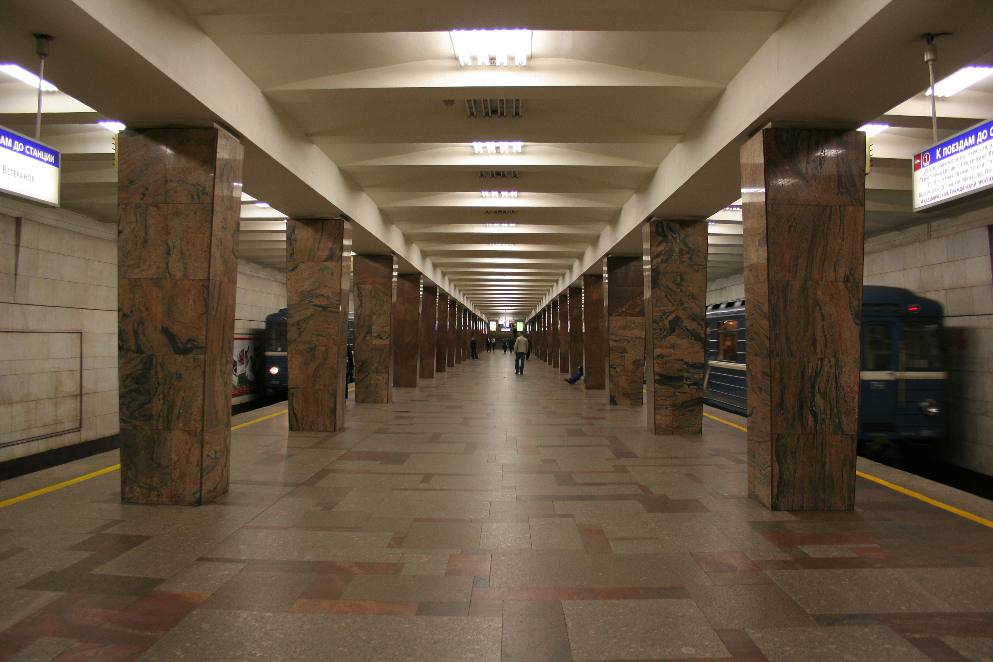 Leninsky Prospekt station of Saint Petersburg Metro